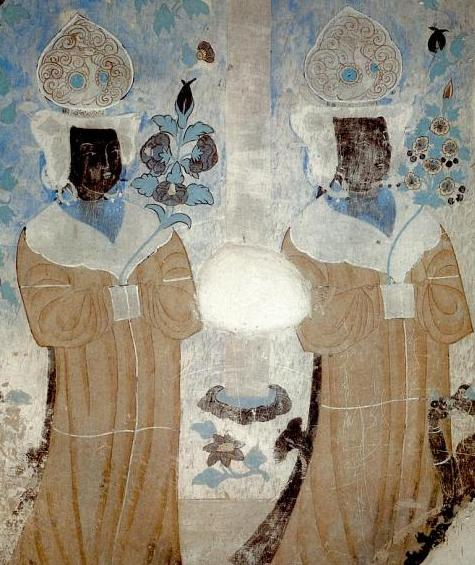 From Mogao cave 409, Five Dynasties